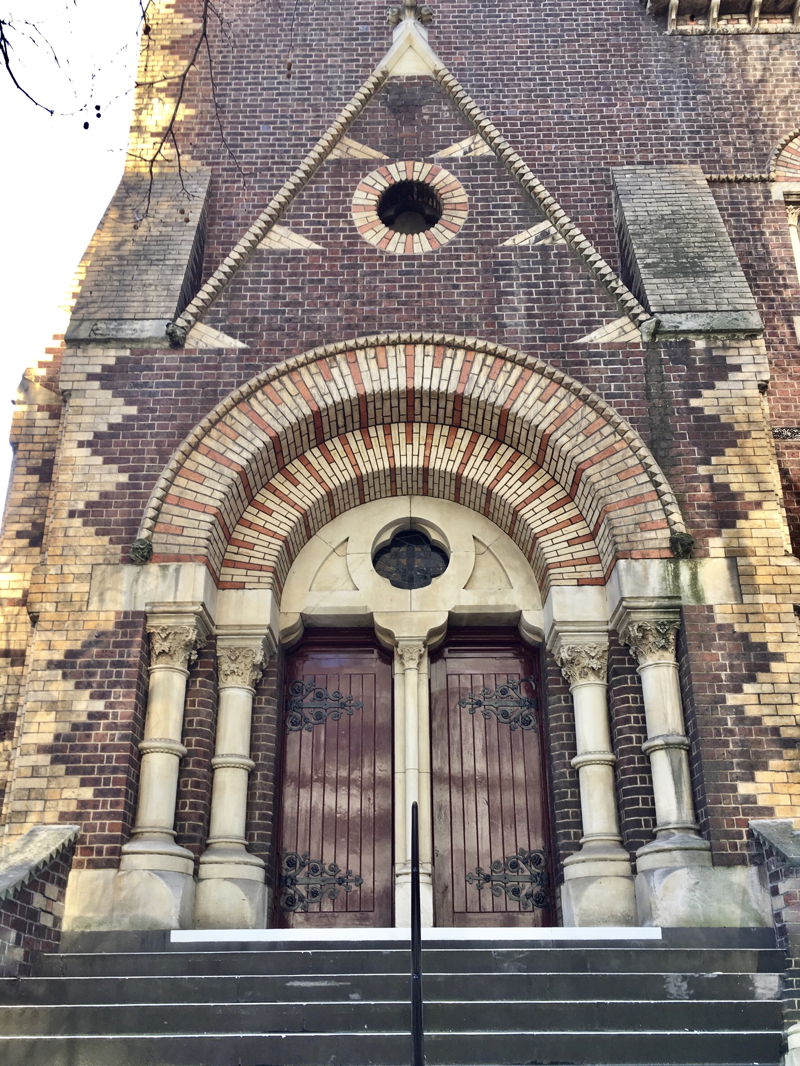 St michaels church collins Street Melbourne doorway showing Victorian polychrome brickwork